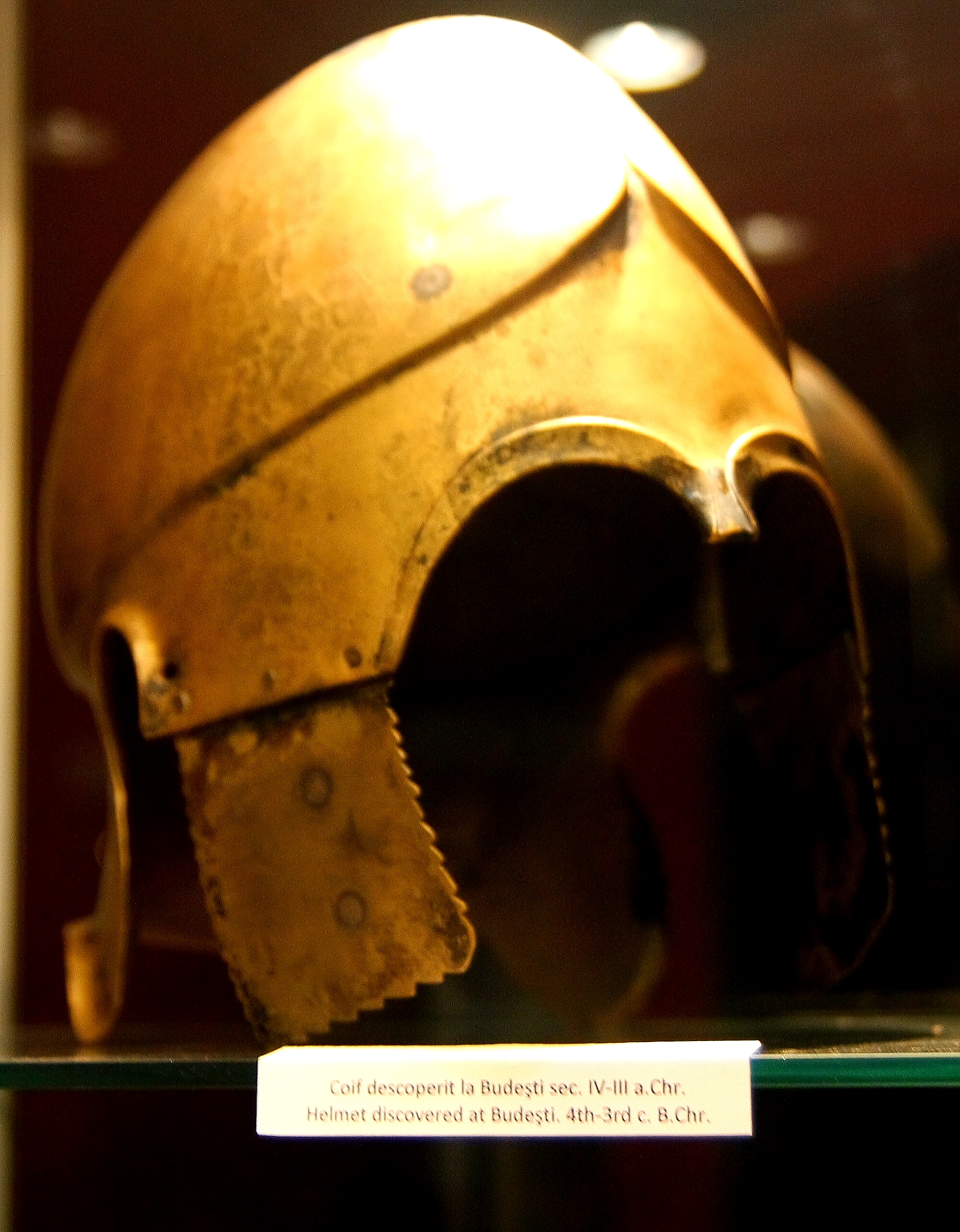 Ancient Bronze Helmet